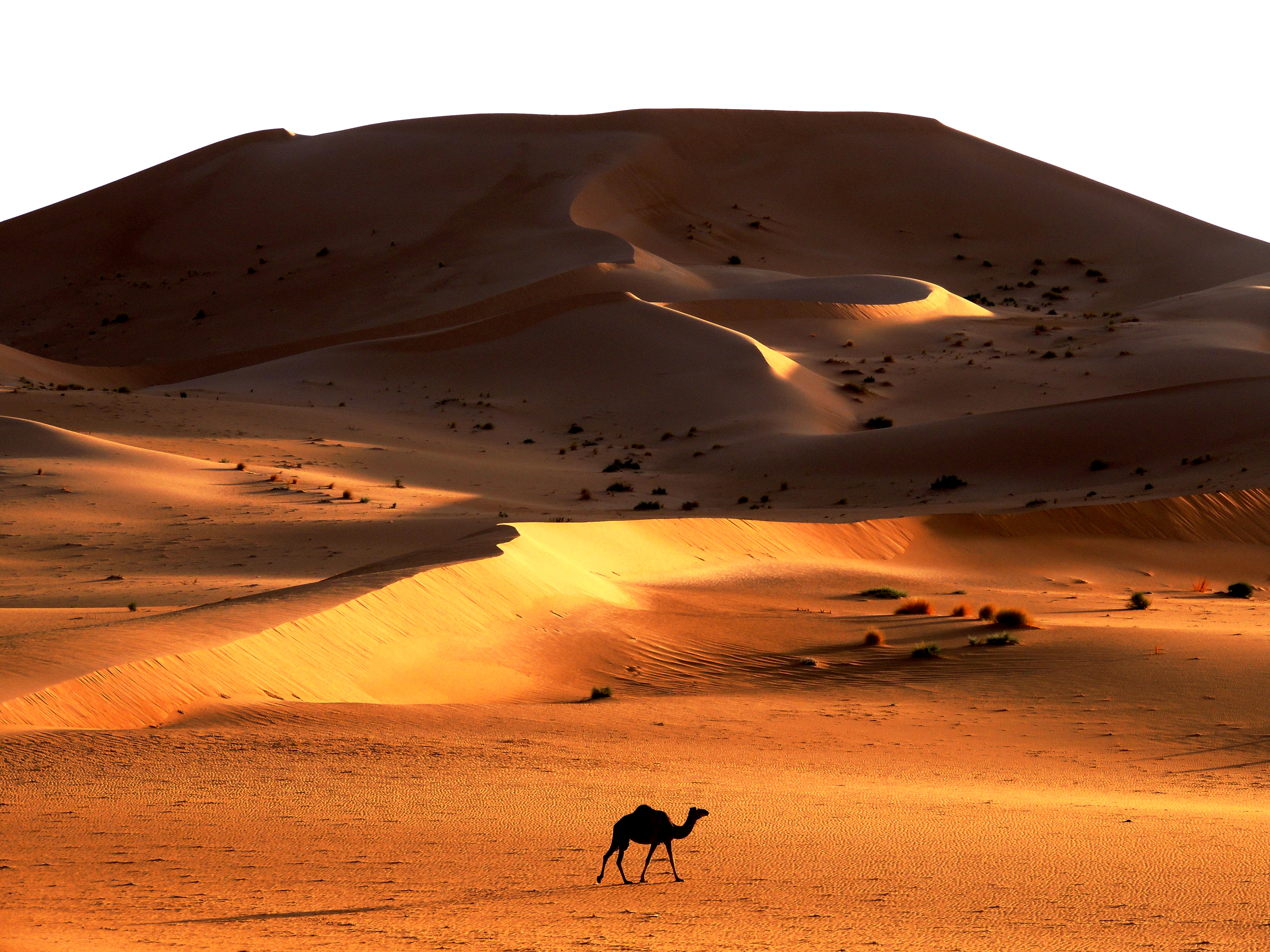 The photo was taken in the south east of the Algerian desert in the Grand Erg Oriental